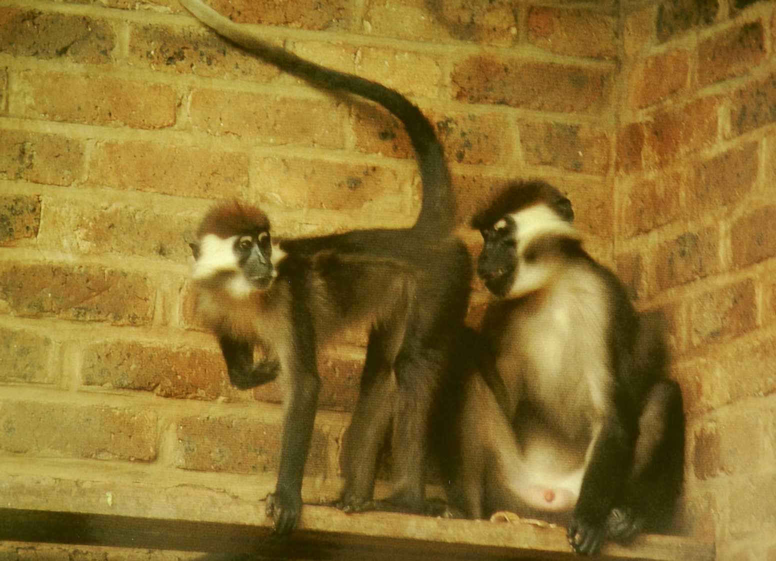 Collared Mangabey (Cercocebus torquatus torquatus) at Pretoria Zoo